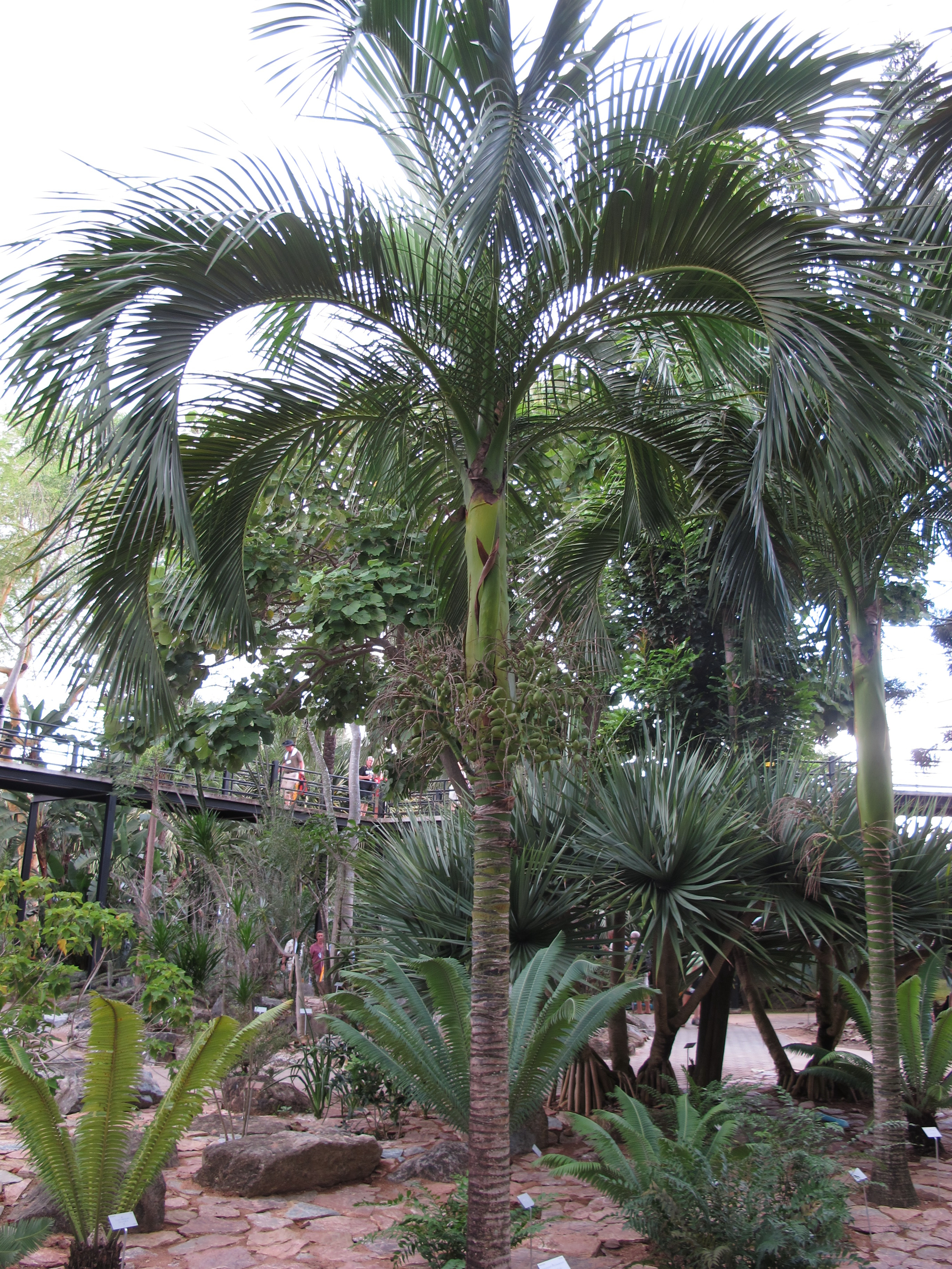 Nong Nooch Tropical Garden, Pattaya, Thailand.